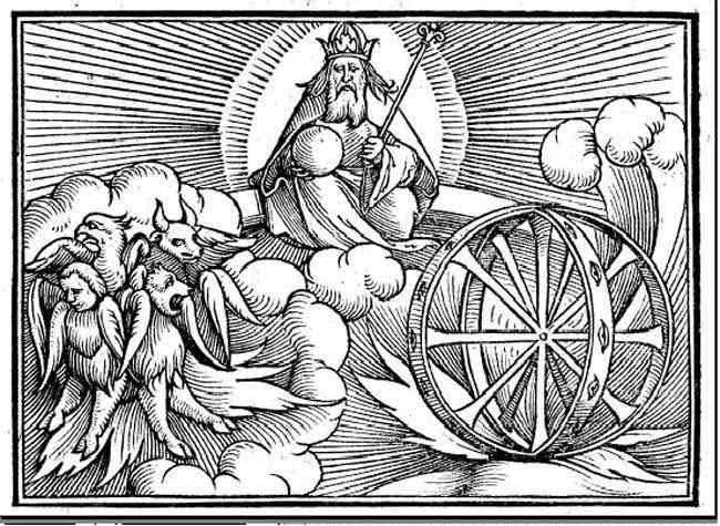 Woodcut: Ezechiel's vision from the Zurich Bible